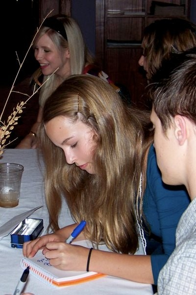 American actress Bridgit Mendler at the autographs session of 'Alice Upside Down', in 2007.